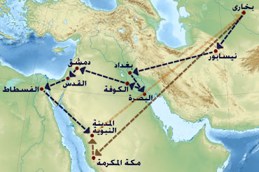 Imam Bukhari's Travels Seeking and Studying Hadith.